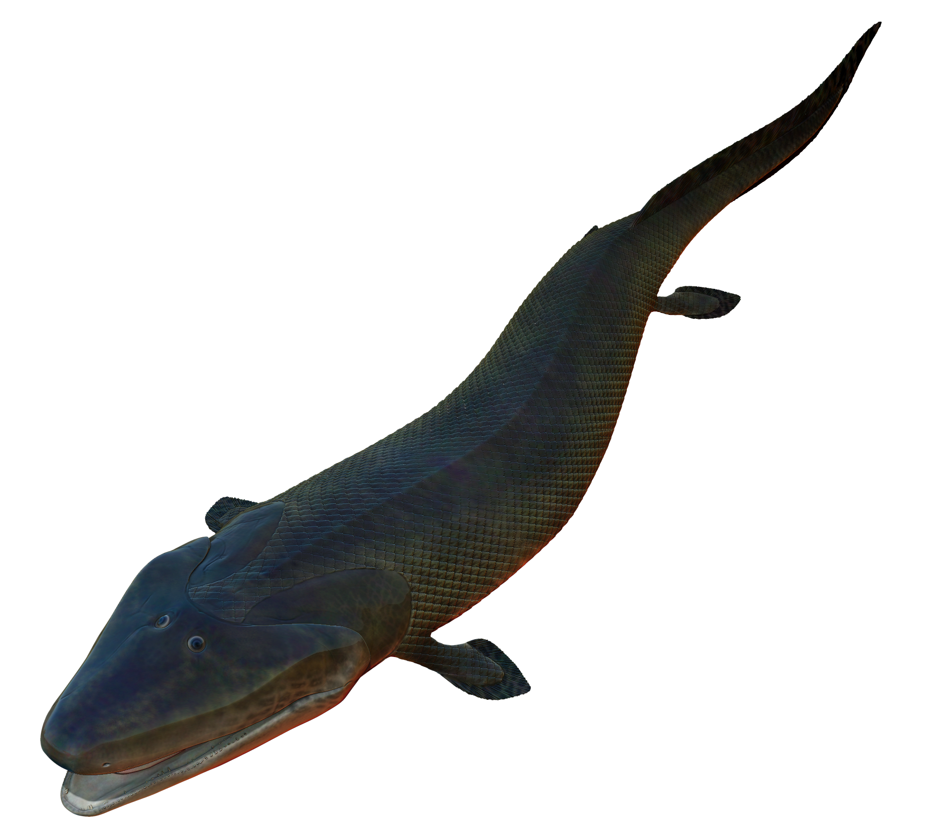 Life restoration of Tiktaalik roseae